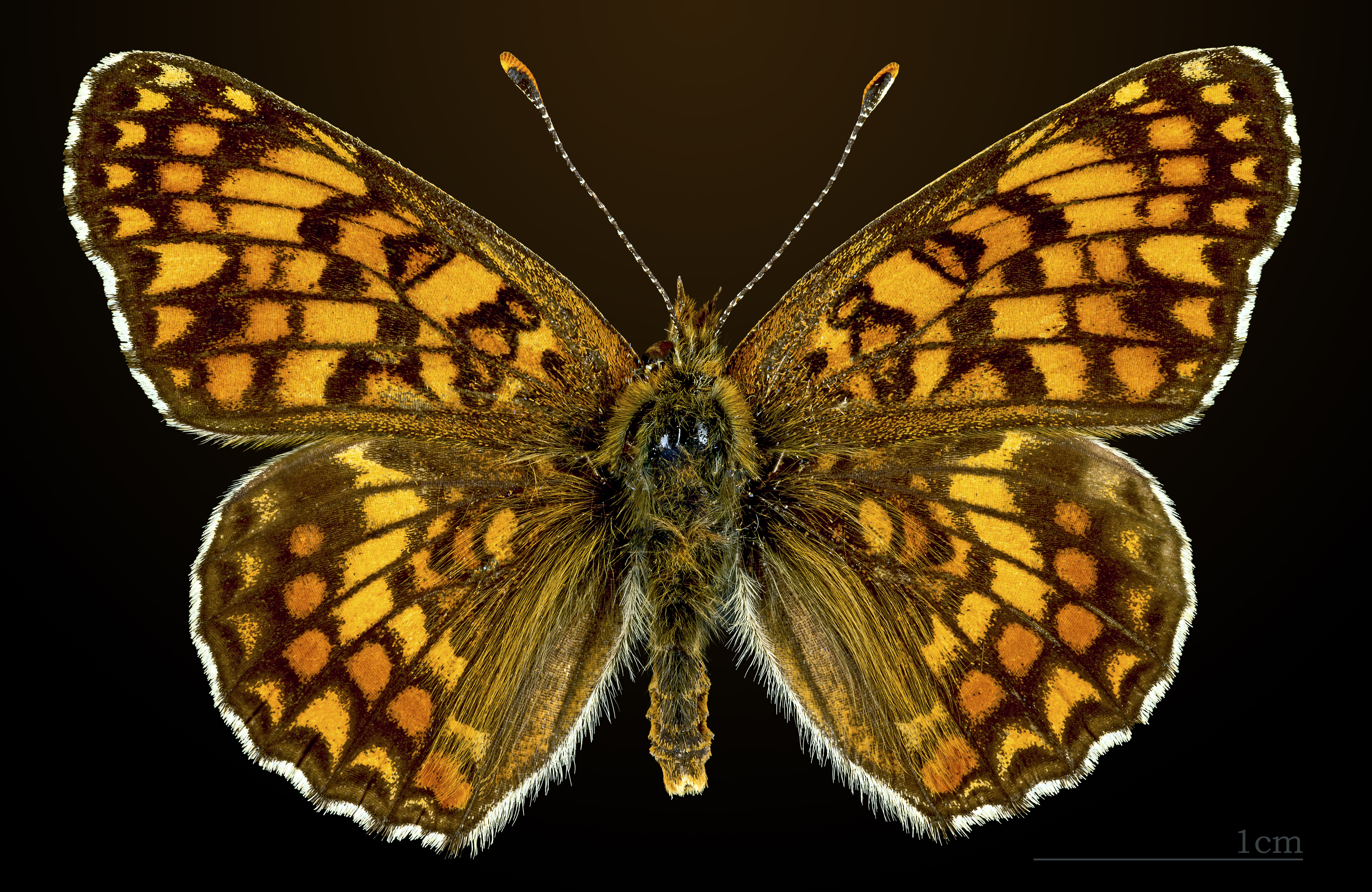 Knapweed Fritillary ♂ - Dorsal side Locality: Flottes, Pradines , Lot, France